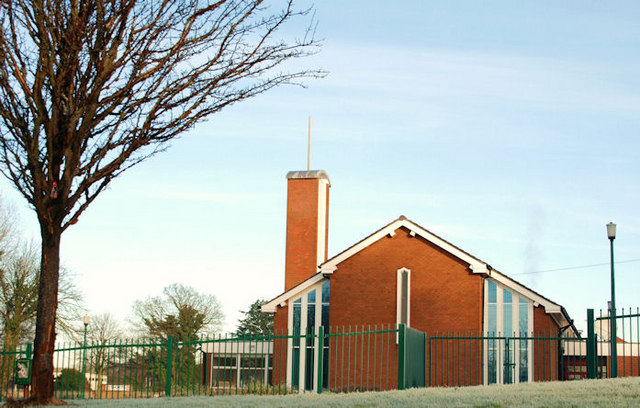 A meetinghouse of The Church of Jesus Christ of Latter-day Saints, Belfast, on the Holywood Road, seen from the Circular Road 1636667. One of three in Belfast.